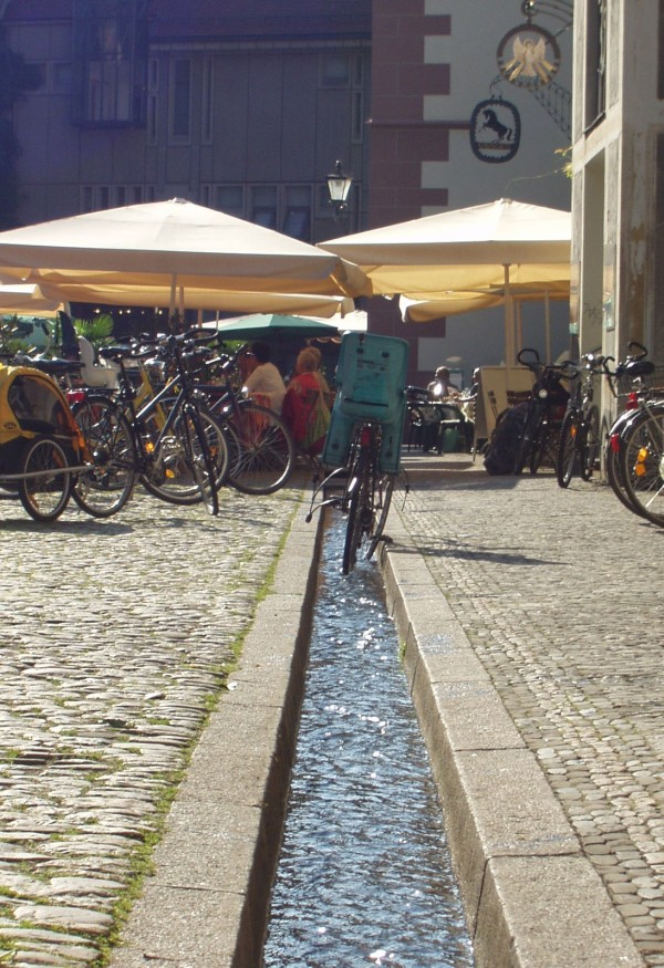 Bächle, symbol of Freiburg, Germany